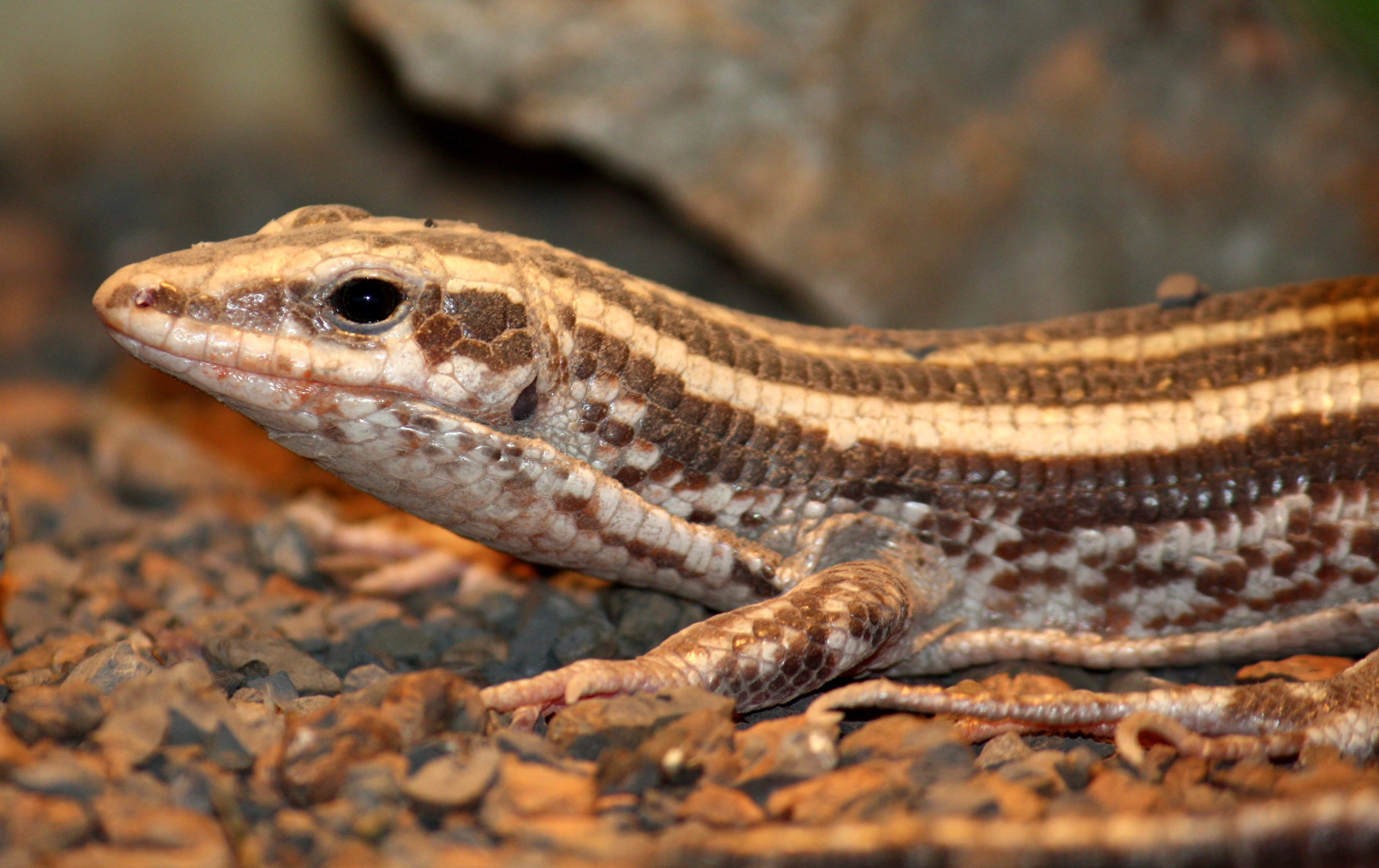 Four-lined Plated Lizard Zonosaurus quadrilineatu at the Louisville Zoo